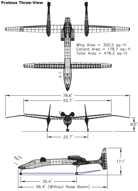 3D drawing of experimental plane : Scaled Composites Proteus